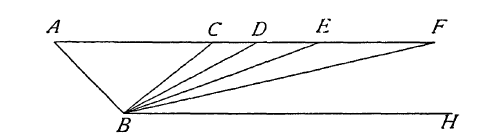 Galileo designed the inclined plane experiment to test the law of inertia.